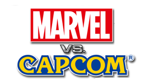 This is a logo owned by Capcom and Marvel Entertainment for the Marvel vs. Capcom series.